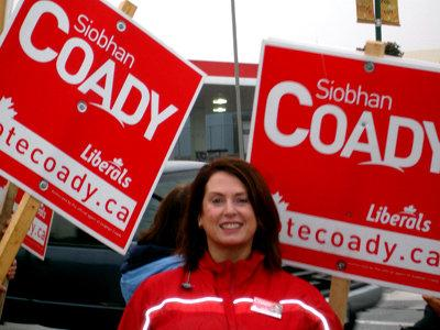 Siobhan Coady campaigning during the 2008 federal election